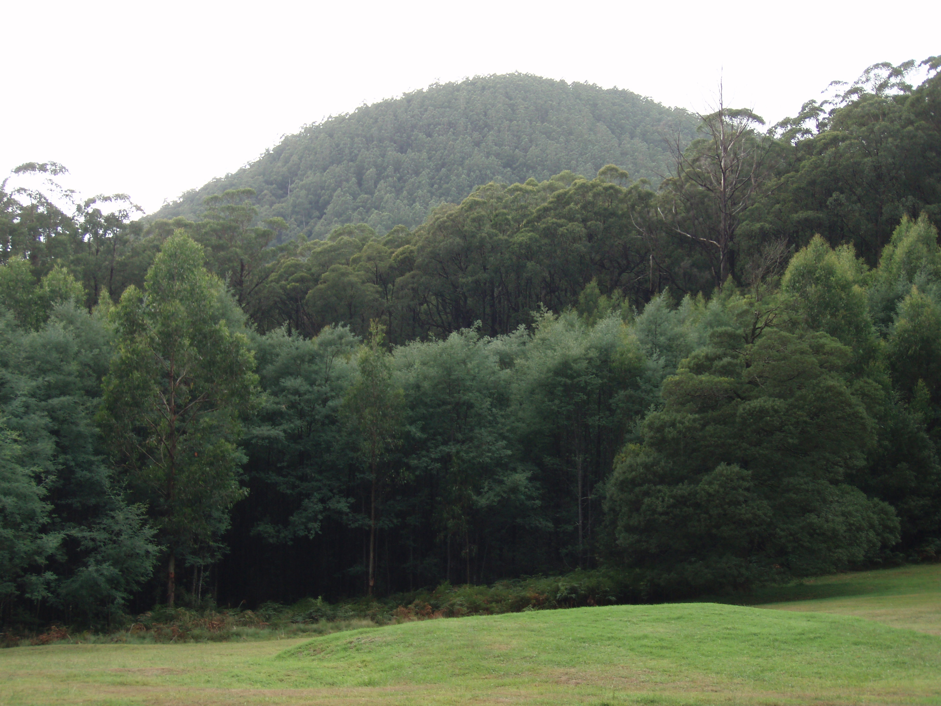 Mount Dom Dom